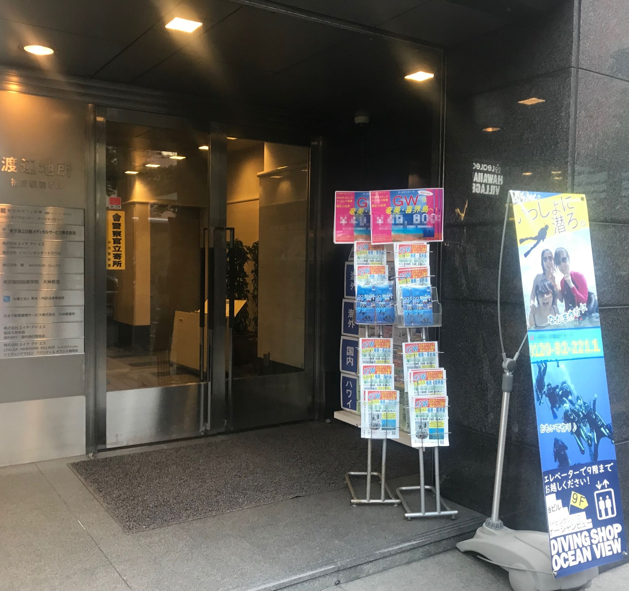 Marine Net Co., Ltd. (Ocean View Diving Shop) Exterior